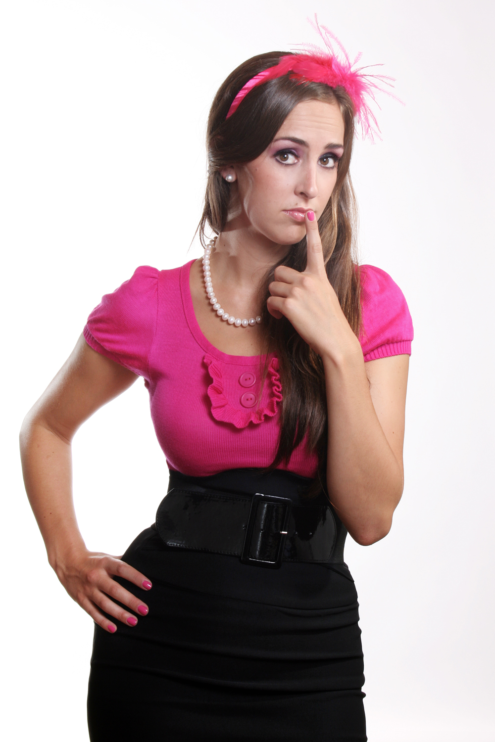 Actress Jesse Draper